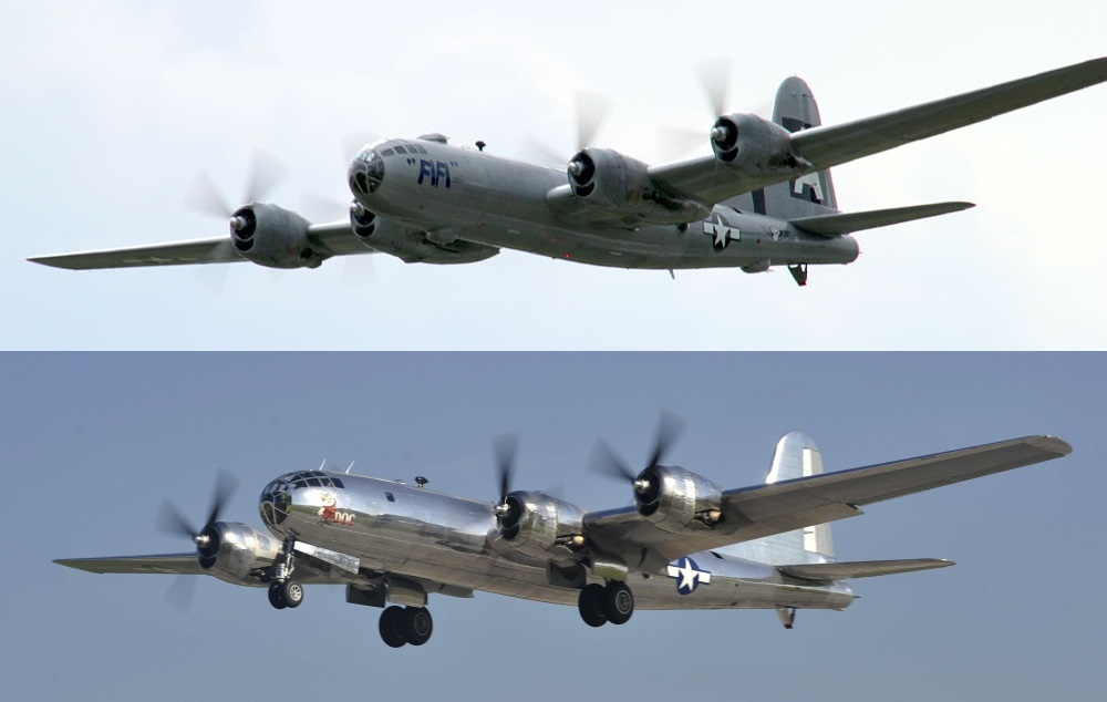 A collage of the B-29s FIFI and Doc